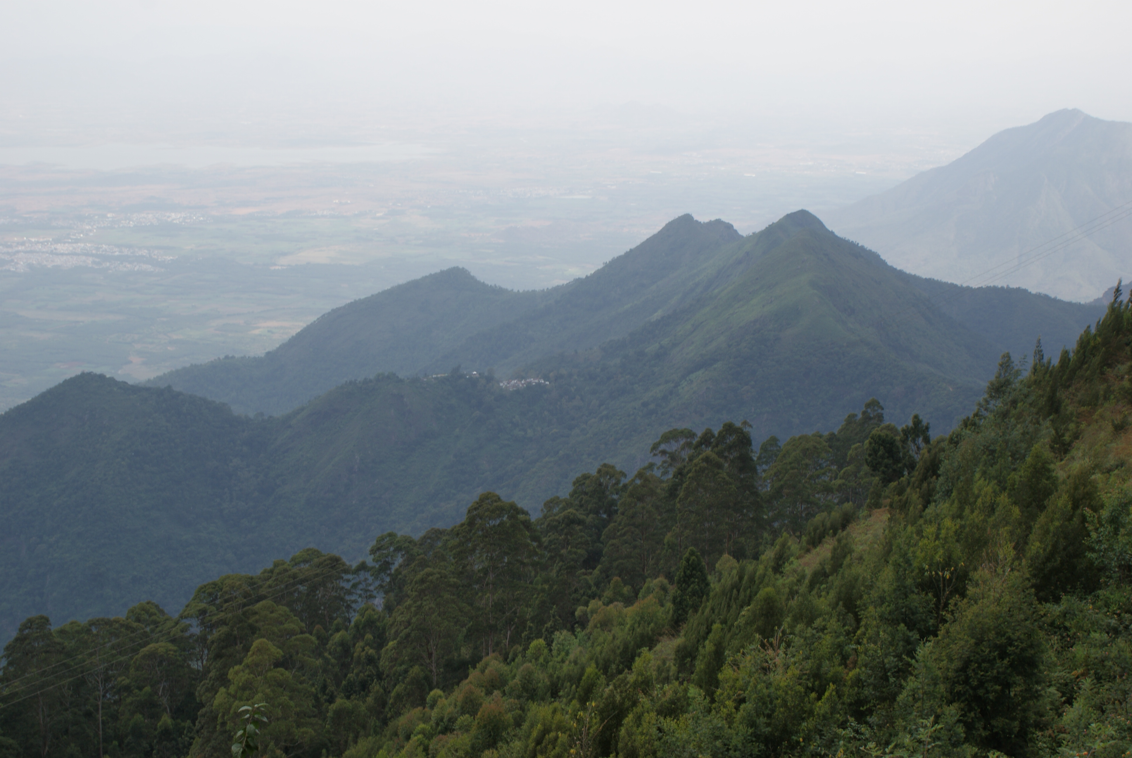 View from Coaker's Walk in Kodaikanal, Tamil Nadu, India